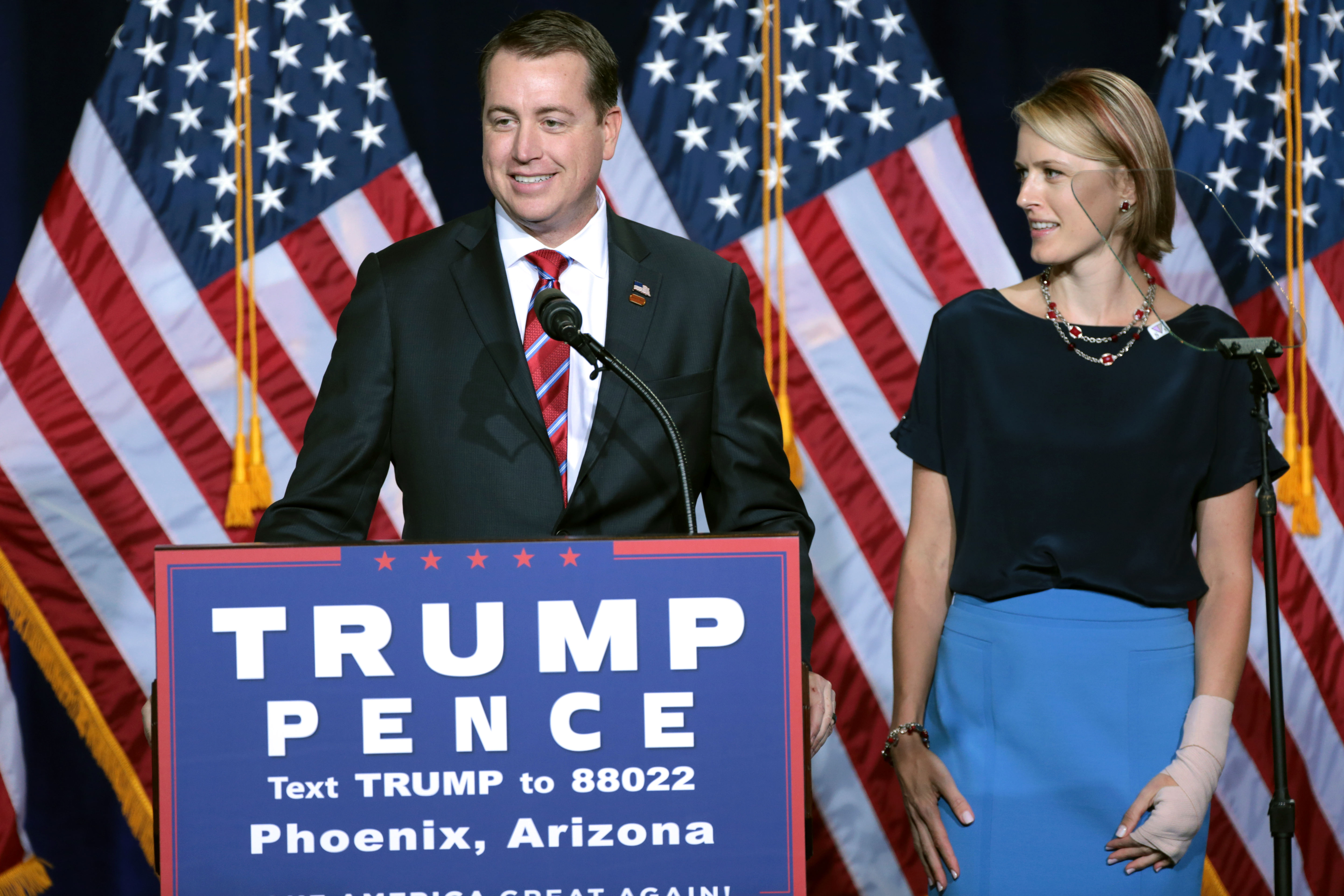 State Treasurer Jeff DeWit and his wife, Marina DeWit, speaking to supporters at an immigration policy speech hosted by Donald Trump at the Phoenix Convention Center in Phoenix, Arizona.